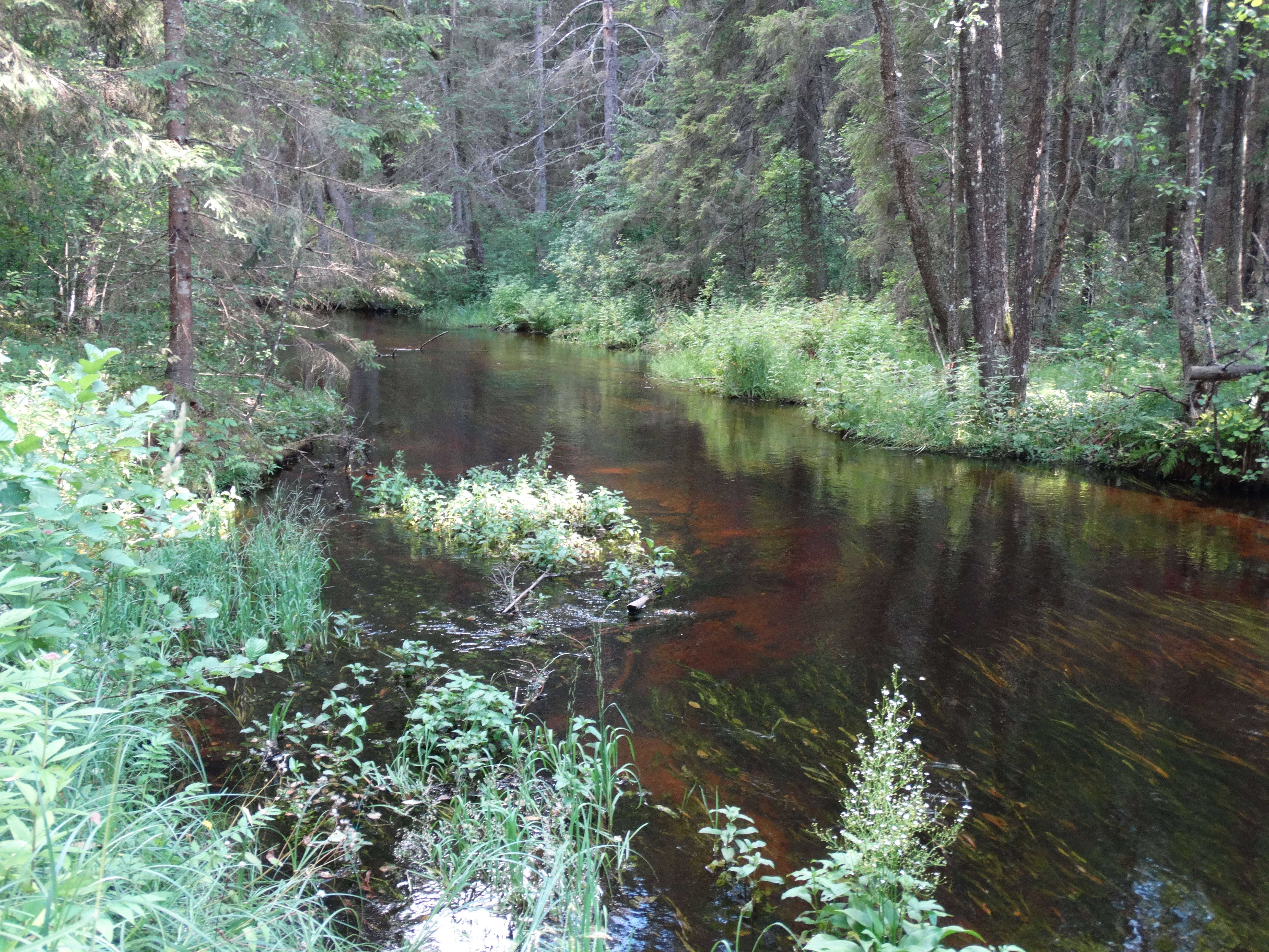 Peršokšna River, Švenčionys district, Lithuania